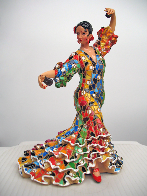 Souvenir of Spain (Barcino)